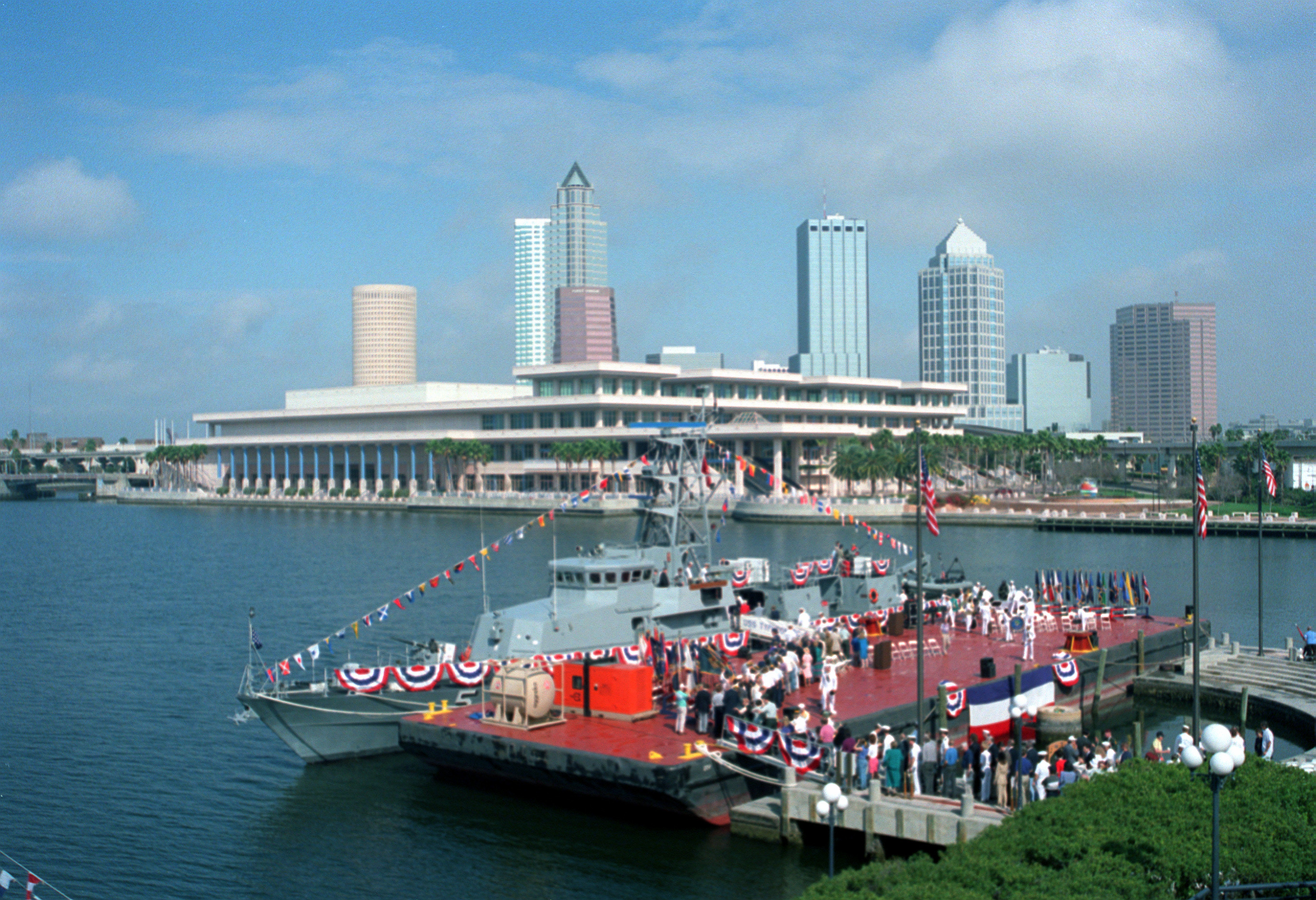 An overall view of the commissioning ceremony of the coastal patrol craft USS TYPHOON (PC-5) showing guests touring the vessel. The ceremony was on the Harbour Island pavilon pavilion. Location: TAMPA BAY, FLORIDA (FL) UNITED STATES OF AMERICA (USA)